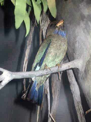 Description: Dollarbird - Source: own work - Location: American Museum of Natural History, New York - Author: self, User:Stavenn